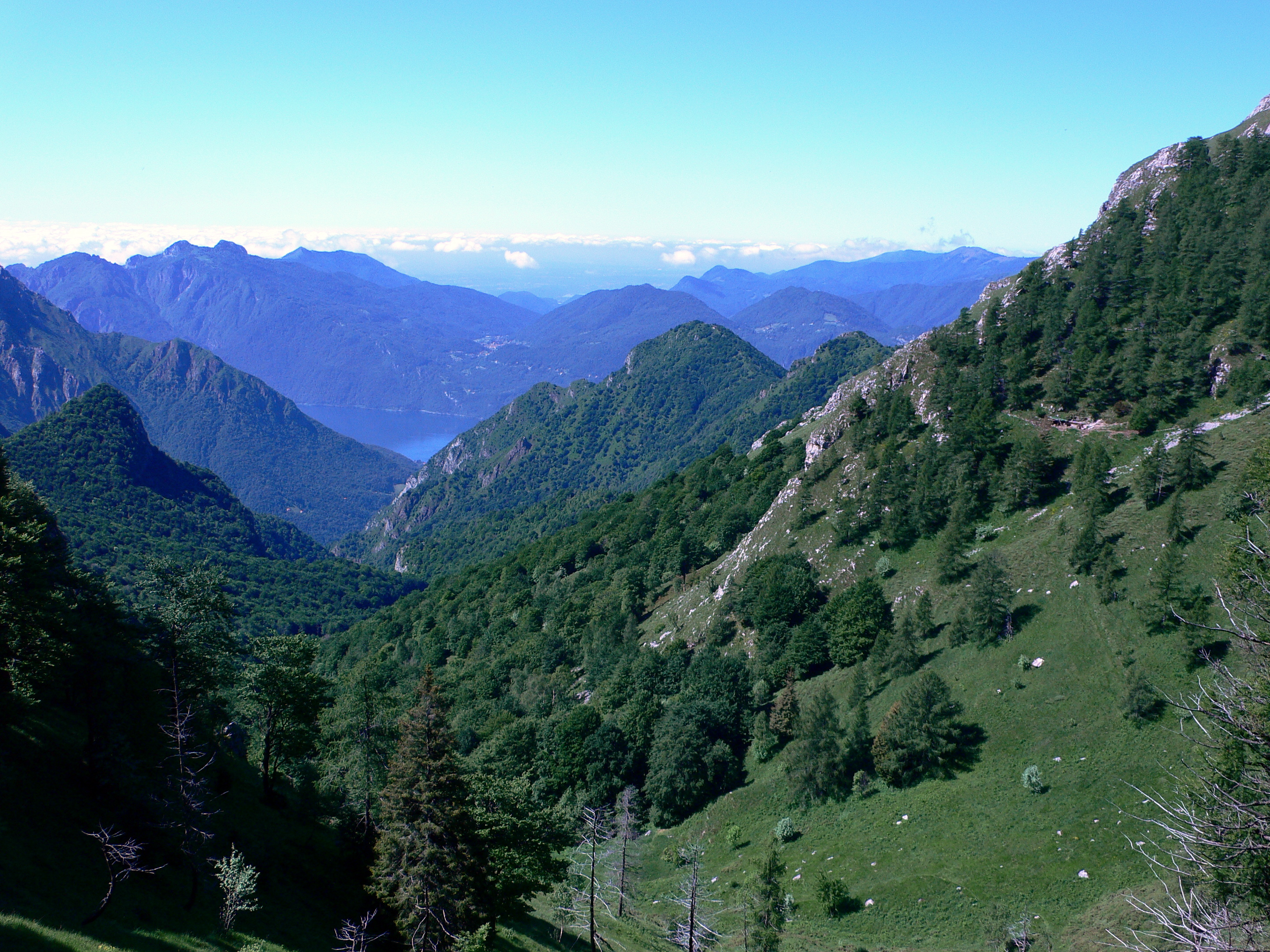 Image of Esino Lario and Grigna. Courtesy Archivio Pietro Pensa, photo by Carlo Maria Pensa.